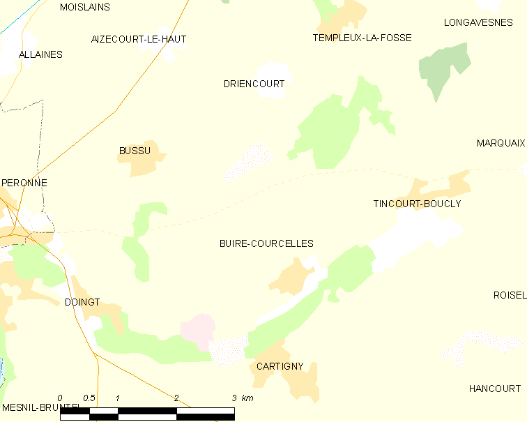 Map of French municipality Buire-Courcelles